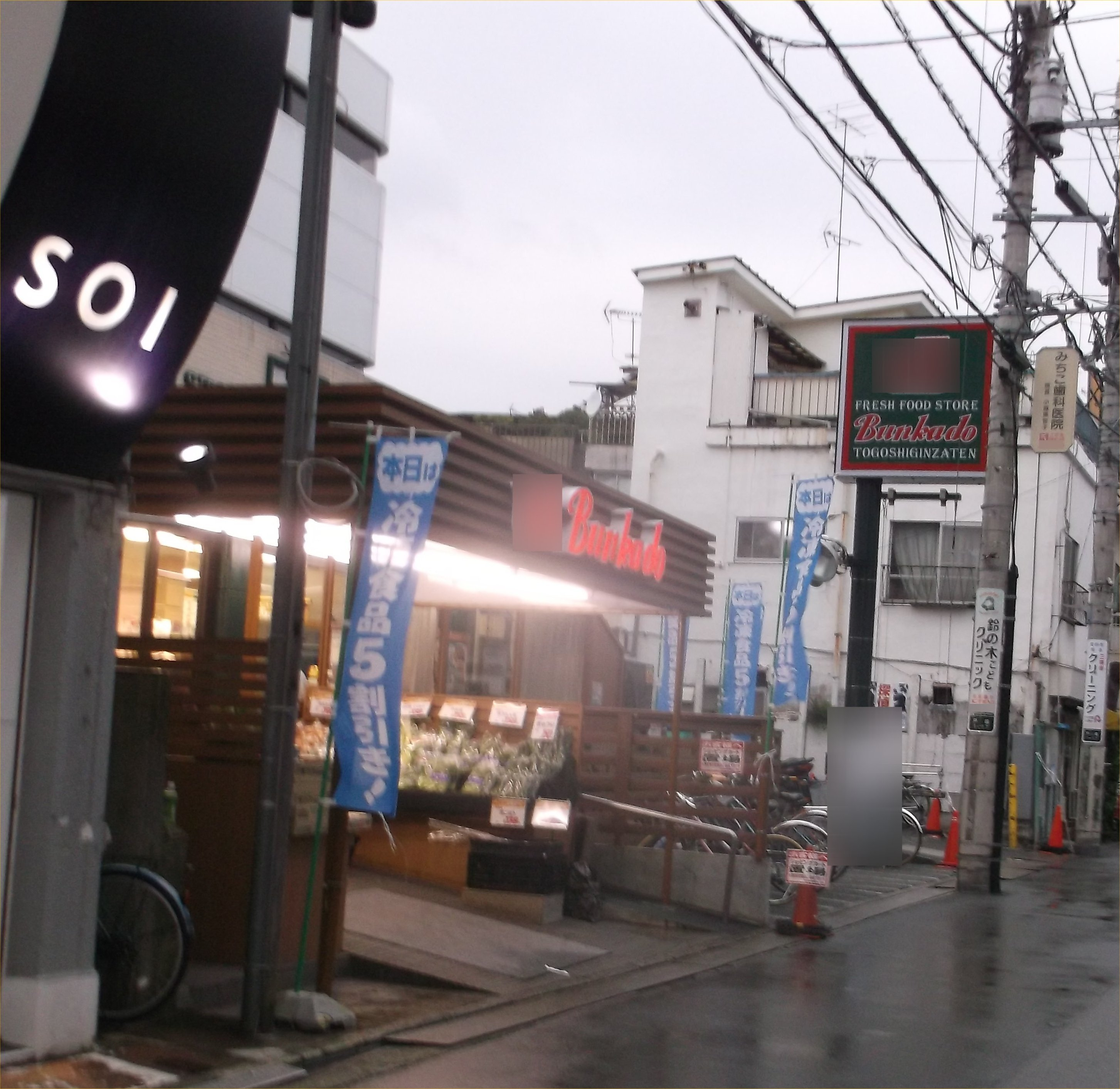 A photo of Bunkado(a supermarket in Tokyo.) Togoshiginza branch shop,Togoshi,Shinagawa-ku,Tokyo,Japan.